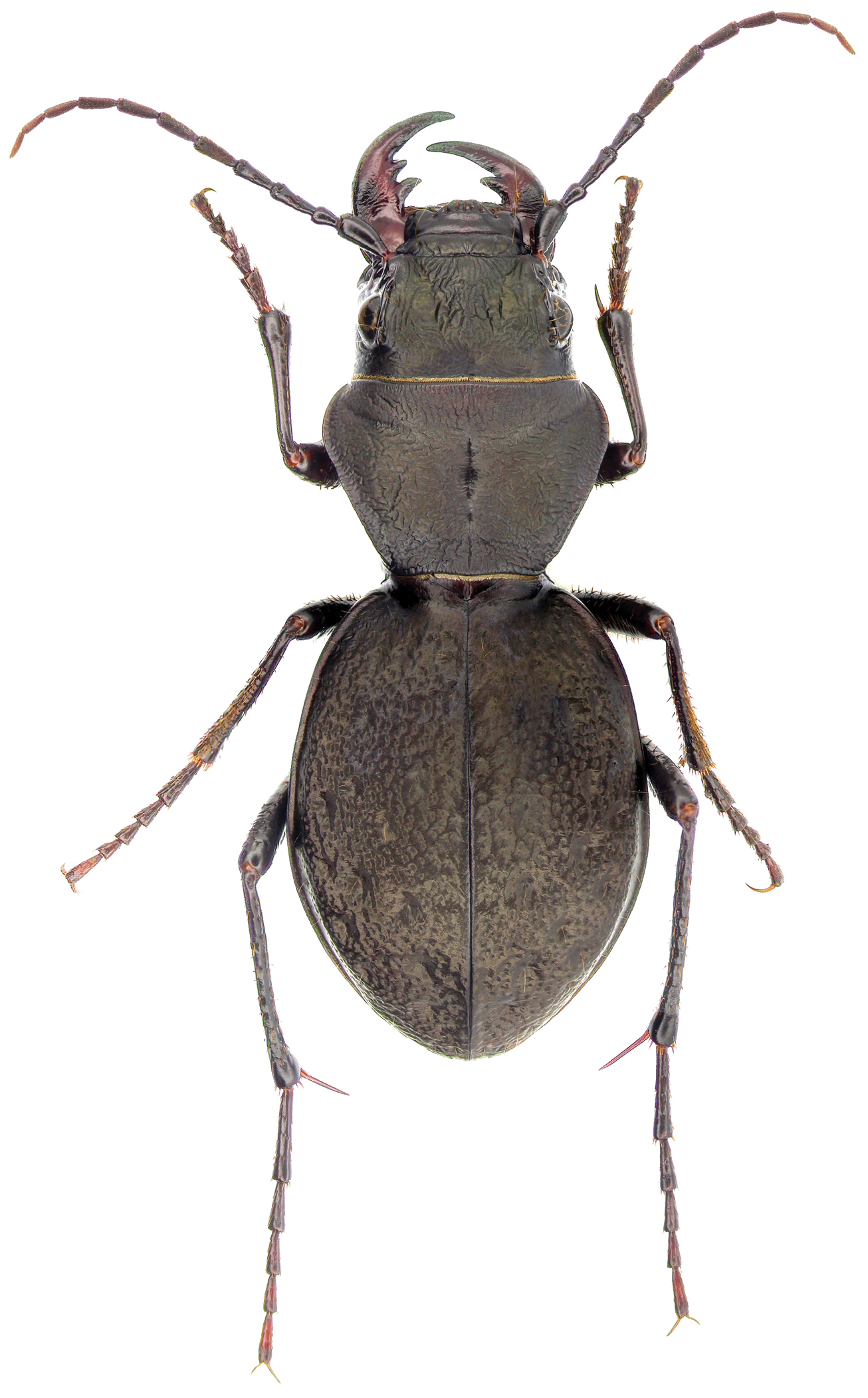 Omus dejeanii Reiche. The Greater Night-stalking Tiger Beetle is one of the few species-group taxa currently recognized in the genus Omus although over one hundred taxa have been described, particularly by Thomas Casey. Even today, taxonomists do not agree on the number of valid taxa that should be recognized in Omus. The difficulty of defining the species-group taxa is not unusual among old, apterous carabid lineages because they tend to form small, local populations.